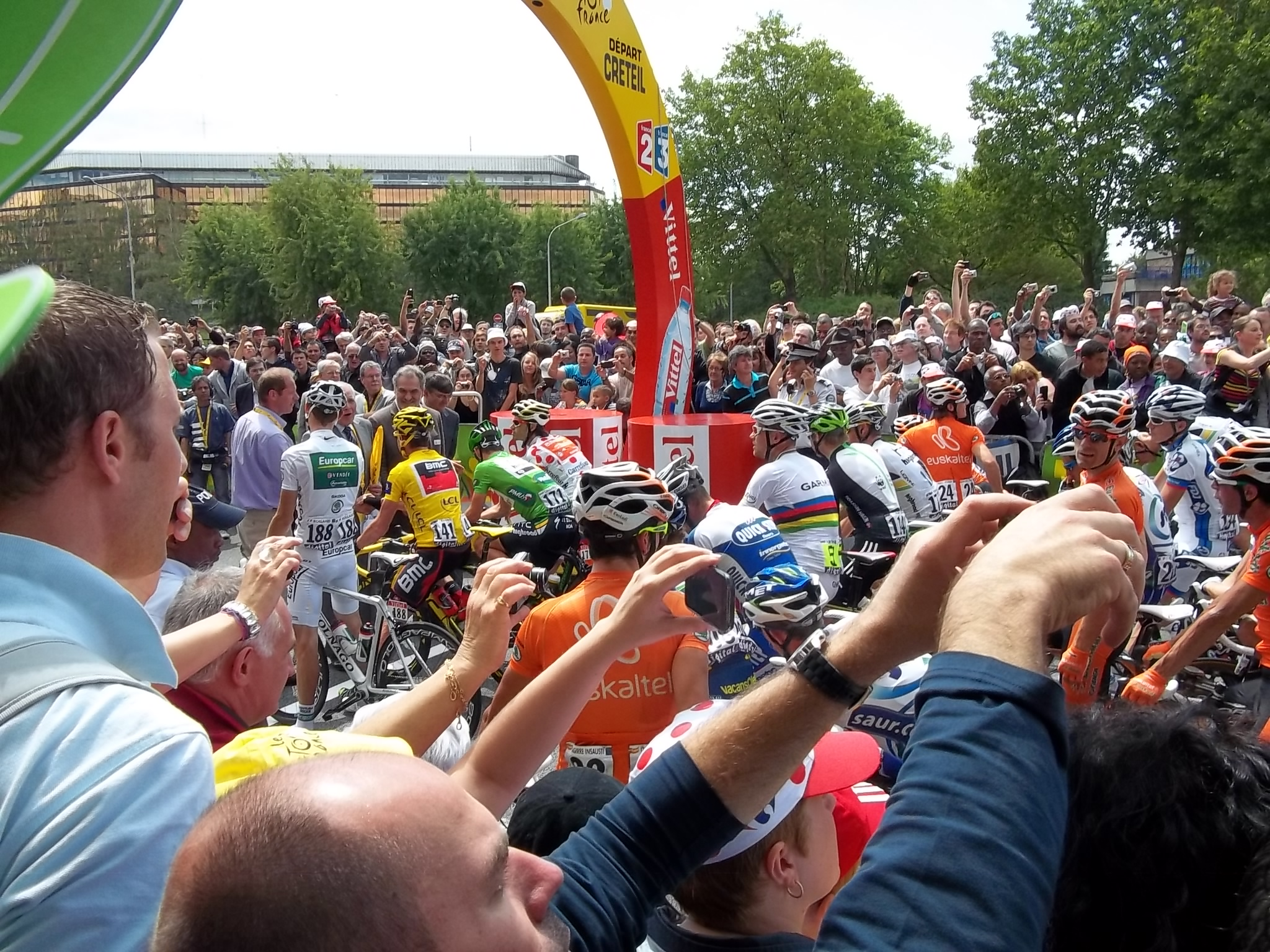 Start line of the last stage of the Tour de France 2011.